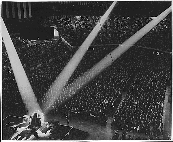 To prove that every working man in America is heart and soul behind this country's all-out war effort, the Wholesale and Warehouse Workers Union in New York City met for this imposing Victory rally in the city's famous Madison Square Garden. The stage at Madison Square Garden, New York, is lit by limelight, 1940. Additional Information About this Item National Archives Identifier: 535588 Local Identifier: 208-AMC-3D(9) Creator(s): Office for Emergency Management. Office of War Information. Overseas Operations Branch. New York Office. News and Features Bureau. 12/17/1942-9/15/1945 (Most Recent) From: Series: Photographs of Military and Civilian Activities, 1939 - 1945 Record Group 208: Records of the Office of War Information, 1926 - 1951 Details Level of Description: Item Type(s) of Archival Materials:Photographs and other Graphic Materials The creator compiled or maintained the series between:1939 - 1945 This item documents the time period:1939 - 1945 General Note(s):Use War and Conflict Number 771 when ordering a reproduction or requesting information about this image. Access Restriction(s):Unrestricted Use Restriction(s):Unrestricted Variant Control Numbers ARC Identifier: 535588 NAIL Control Number: NWDNS-208-AMC-3D(9)